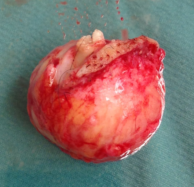 A surgically removed sebaceous cyst.